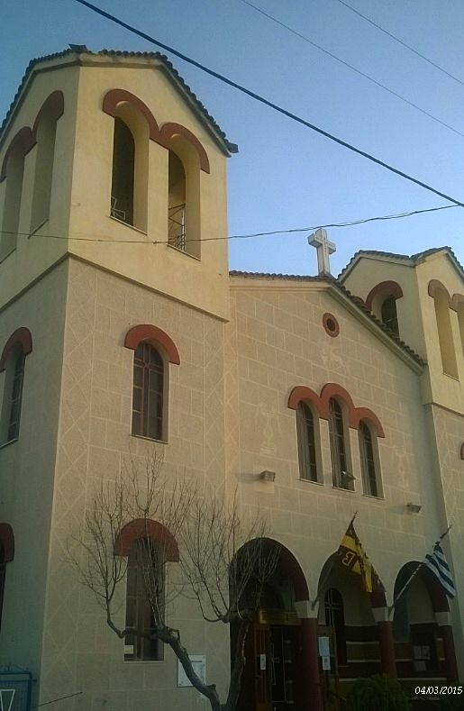 Christian Orthdodox church dedidated to the "Birth of St. John the Baptist", "Tsirogiannis" area, Paralia Patras, Achaia, Greece.